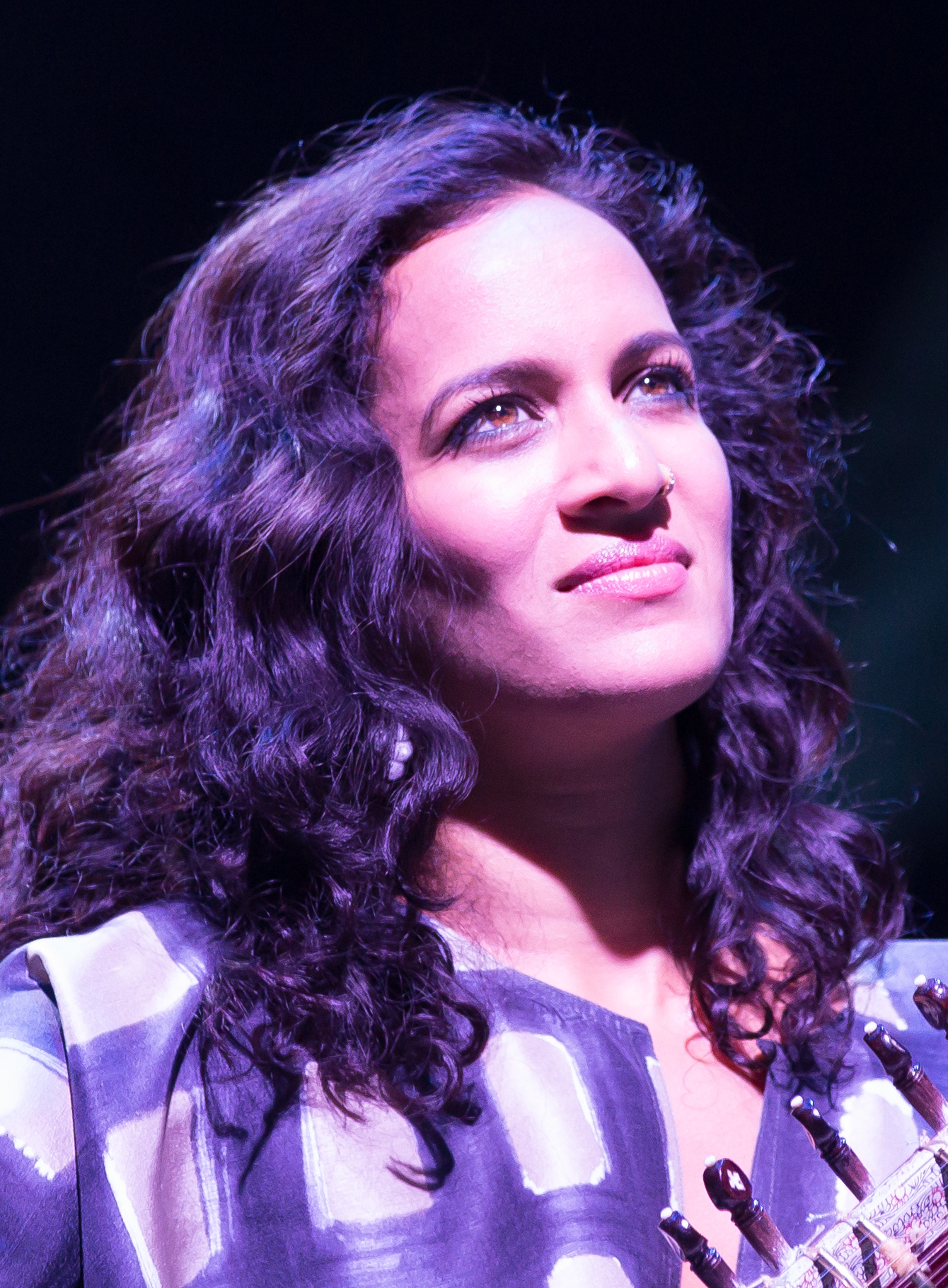 Sitar player Anoushka Shankar at the Rudolstadt-Festival 2016